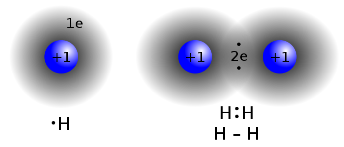 covalent bond